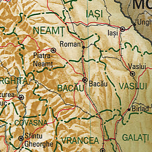 Map of Bacău County, Romania.